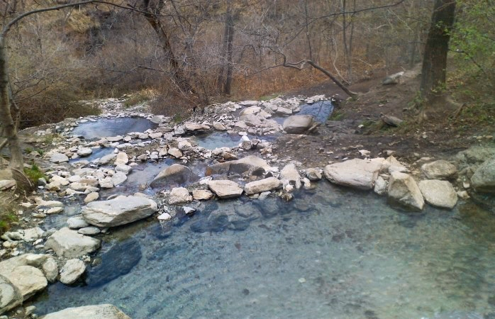 Prats-Balaguer's hot water spring - View from the top